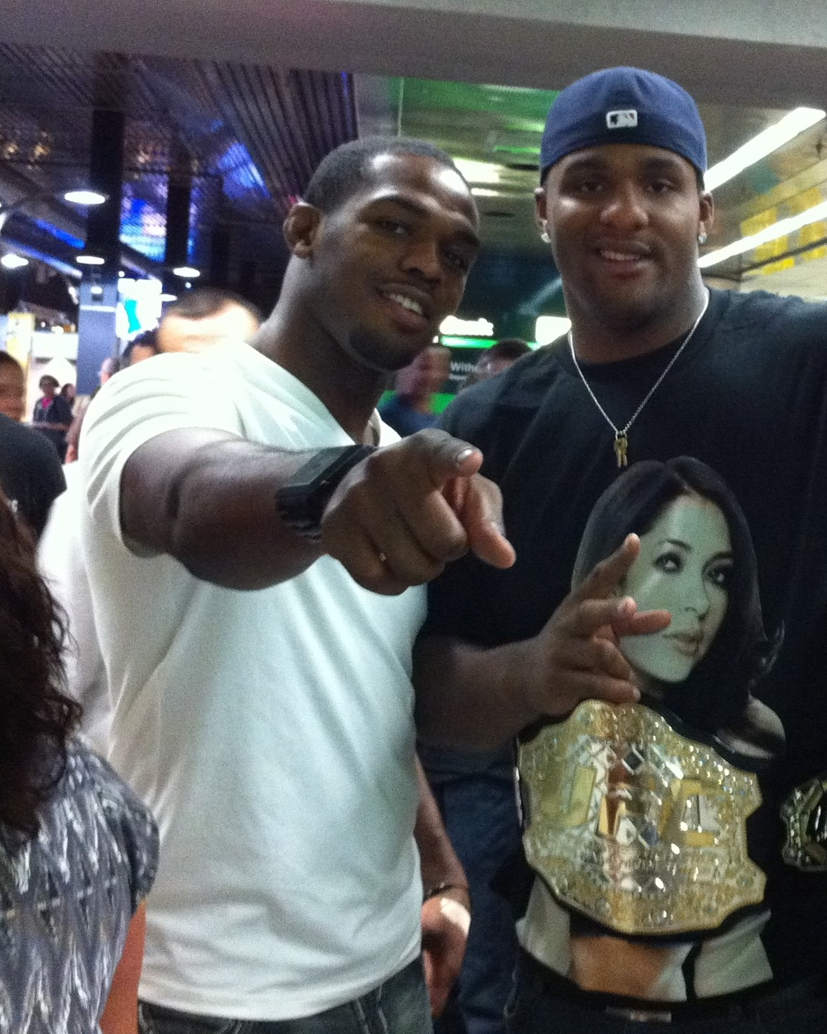 UFC youngest champion Jon Jones and basketball player Glen Davis.